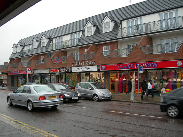 Shops and Flats on Ilford Lane. Ilford Lane has many shops that cater for a large local Asian population. Here are some shops selling brightly coloured saris. We are near the junction of Windsor Road, sheltering from a downpour.